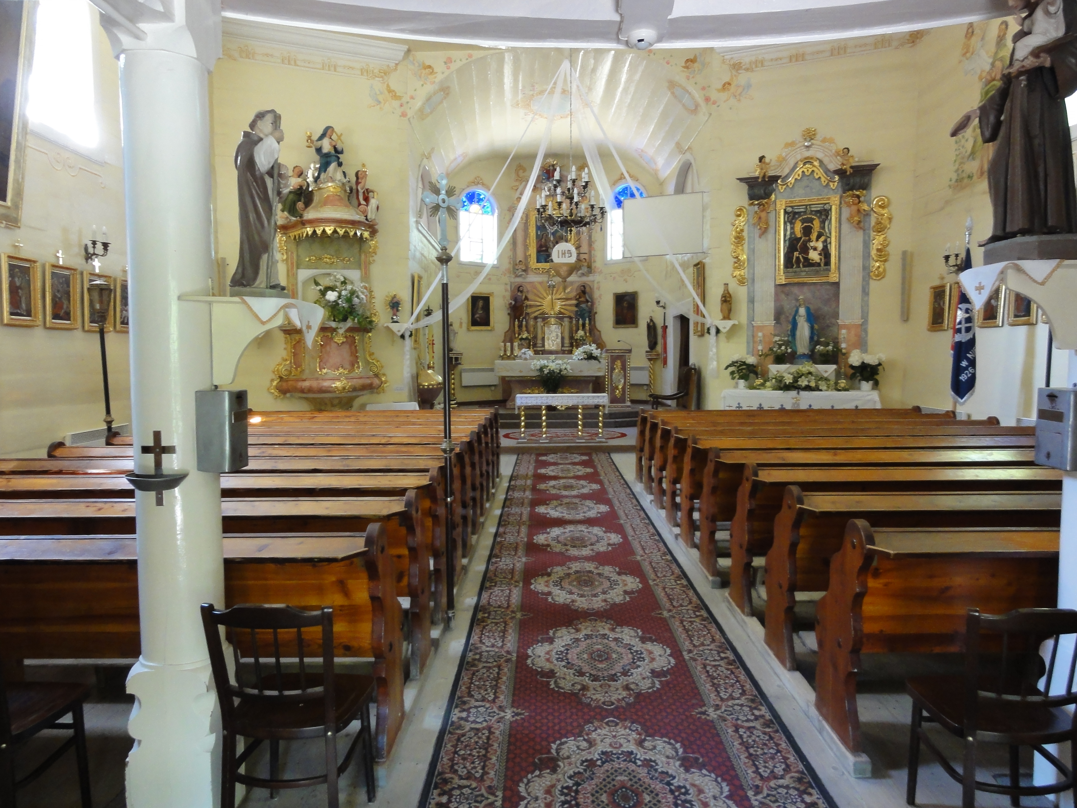 Interior of the church of St. Anne in Ustroń-Nierodzim